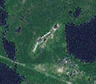 Soviet/Russian radar station at Olenegorsk, Russia. Public domain aerial photography from NASA World Wind - i-cubed landsat layer.